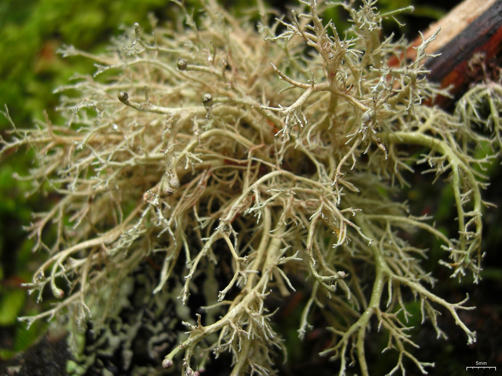 Sphaerophorus venerabilis Wedin, Högnabba & Goward Location: Glacier Peak Wilderness, Washington, USA Observation Notes: in rainforest at ~4000’ near Sitkum CreekThe key I have access to distinguishes two epiphytic species of Sphaerophorus:S. venerabilis — main stems irregularly dimpled; dense clusters of 3rd-order branchlets confined to base if present; black pycnidia abundantS. tuckermannii — main stems at most weakly dimpled; dense clusters of 3rd-order branchlets scattered throughout; pycnidia sparseI’ve never seen S. venerabilis before, but thought that this looked different from the usual material of S. tuckermannii (sparser “foliage” and black dots). For more information about this, see the observation page at Mushroom Observer.